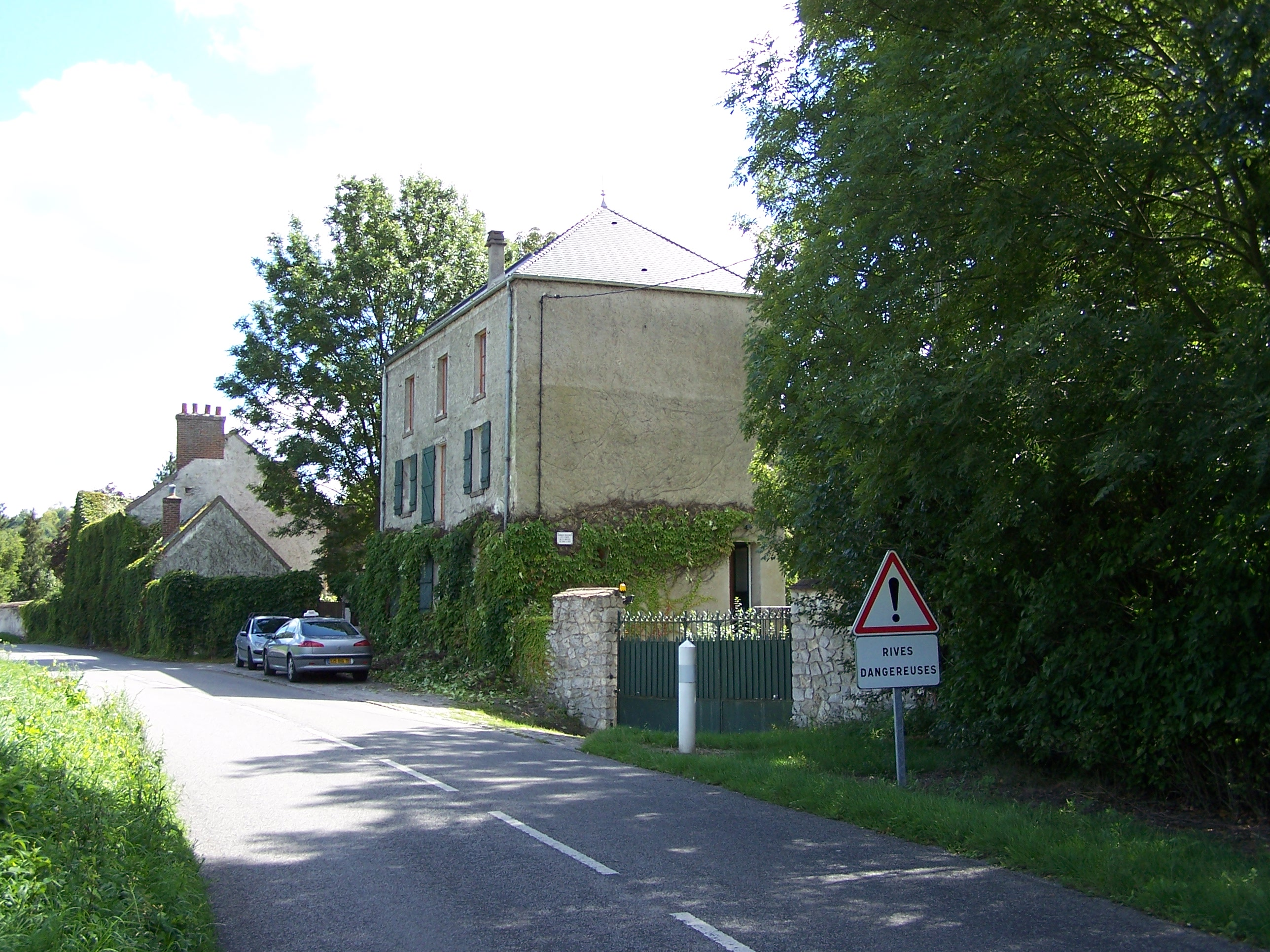 The Mill of La Bonde, previous house of Georges Brassens in Crespières (Yvelines, France).